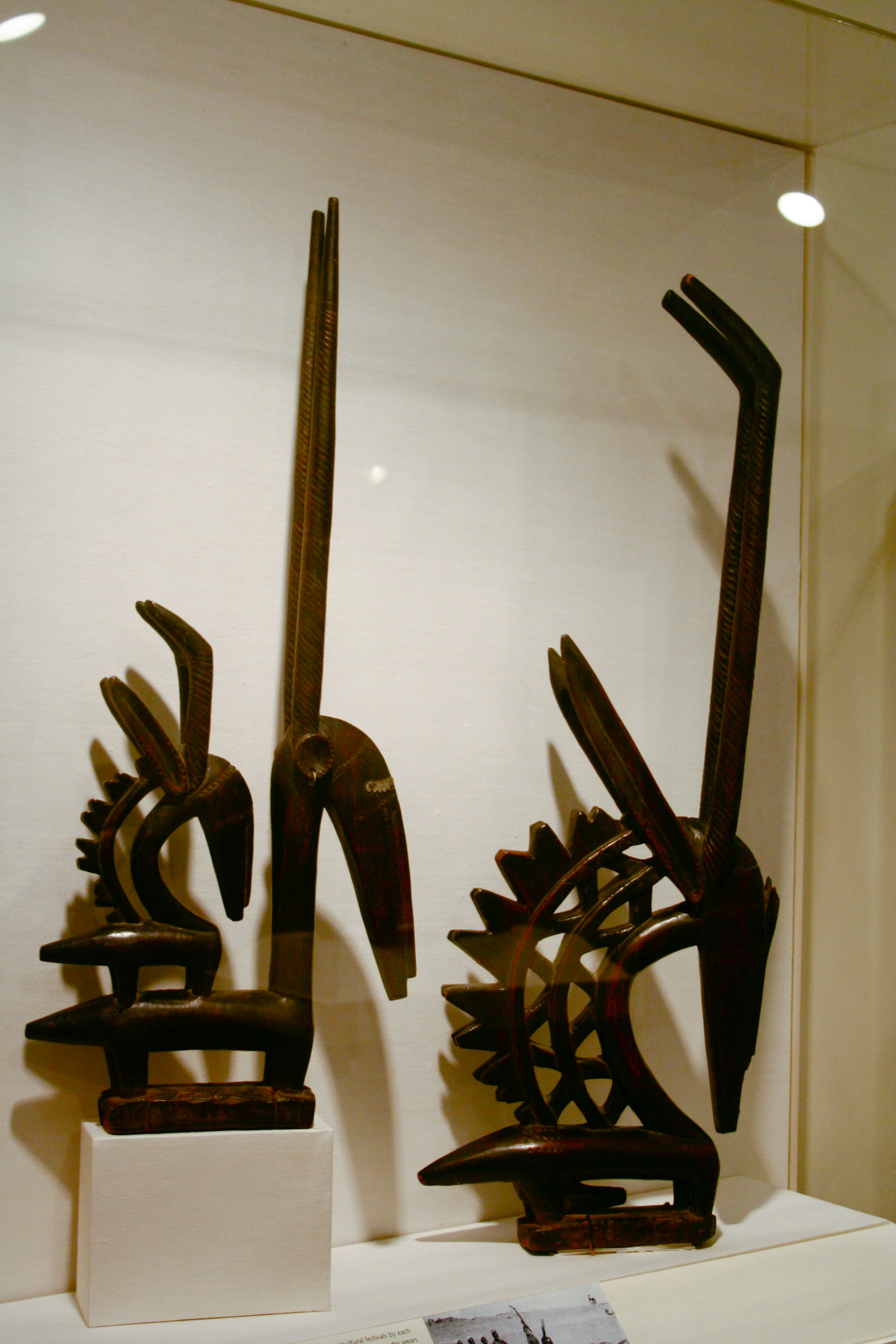 Bamana. Dance Headdress (Ci-Wara Kun), late 19th-early 20th century. Wood, metal, 36 3/8 x 14 1/4 x 2 7/8 in. (92.4 x 36.2 x 7.3 cm) . Brooklyn Museum, Gift of Rosemary and George Lois, 77.245.1. Bamana. Dance Headdress (Ci-Wara Kun), late 19th-early 20th century. Wood, metal, 31 3/4 x 13 1/2 x 2 3/4 in. (80.6 x 34.3 x 7 cm). Brooklyn Museum, Gift of Rosemary and George Lois, 77.245.2.